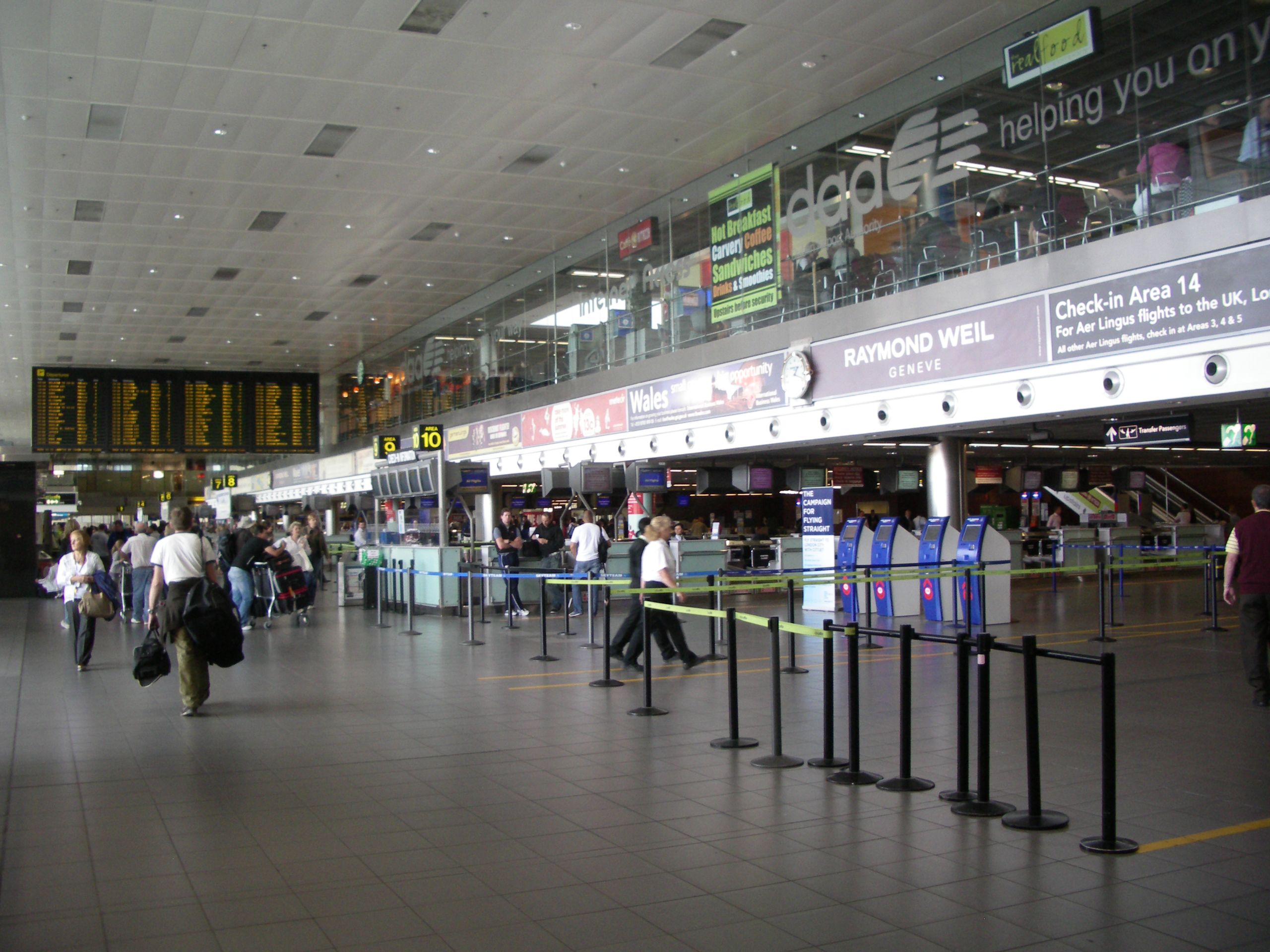 Photo of departures level of Dublin Airport, taken by myself on July 23rd 2009